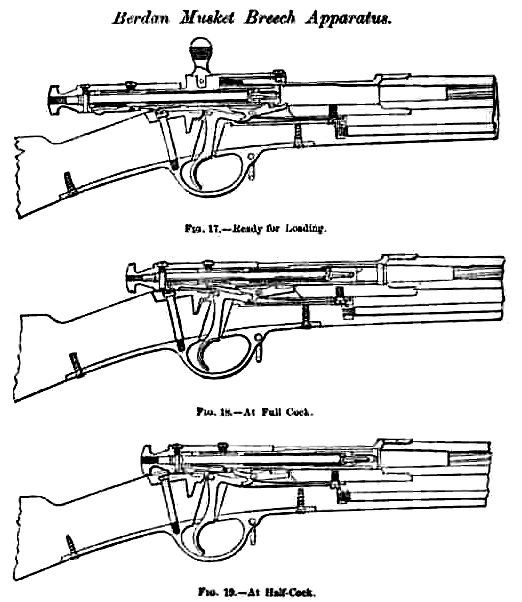 The Russian Army and its Campaigns in Turkey